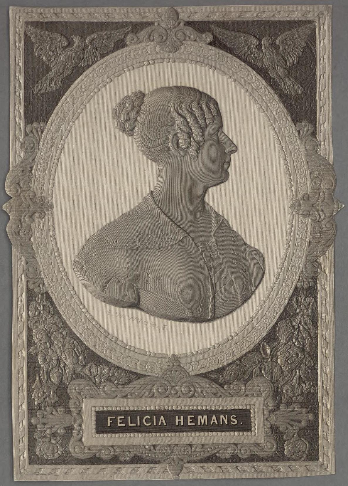 A portrait from the Welsh Portrait Collection at the National Library of Wales. Depicted person: Felicia Hemans – English poet (1793-1835)